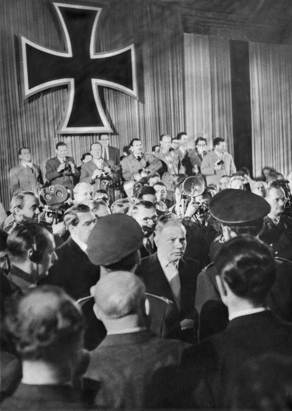 GFR, Bonn, Ermekeil-barracks, 1955, Defence-Minister Theodor Blank, west german army volunteers. From GDR archives. Original caption reads: First generals nominated. During the foreign ministers conference in Geneva, the revenge-politicians from Bonn already speeded up the deployment of the westgerman mercenary-army. Right now they request a new issue of the cold-war and make preparations to turn it into a hot one. The first 101 officers as cadre of the future army have been officially nominated on 12th November 1955 by minister of war Theodor Blank.